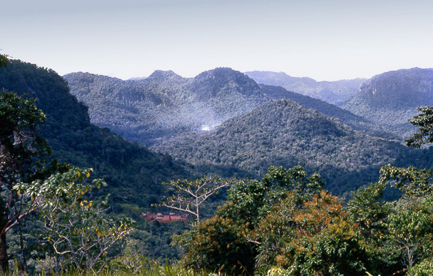 Owen Stanley range PNG, View of the Owen Stanley Ranges from Ower's Corner, 50 km (31 mi) east of Port Moresby